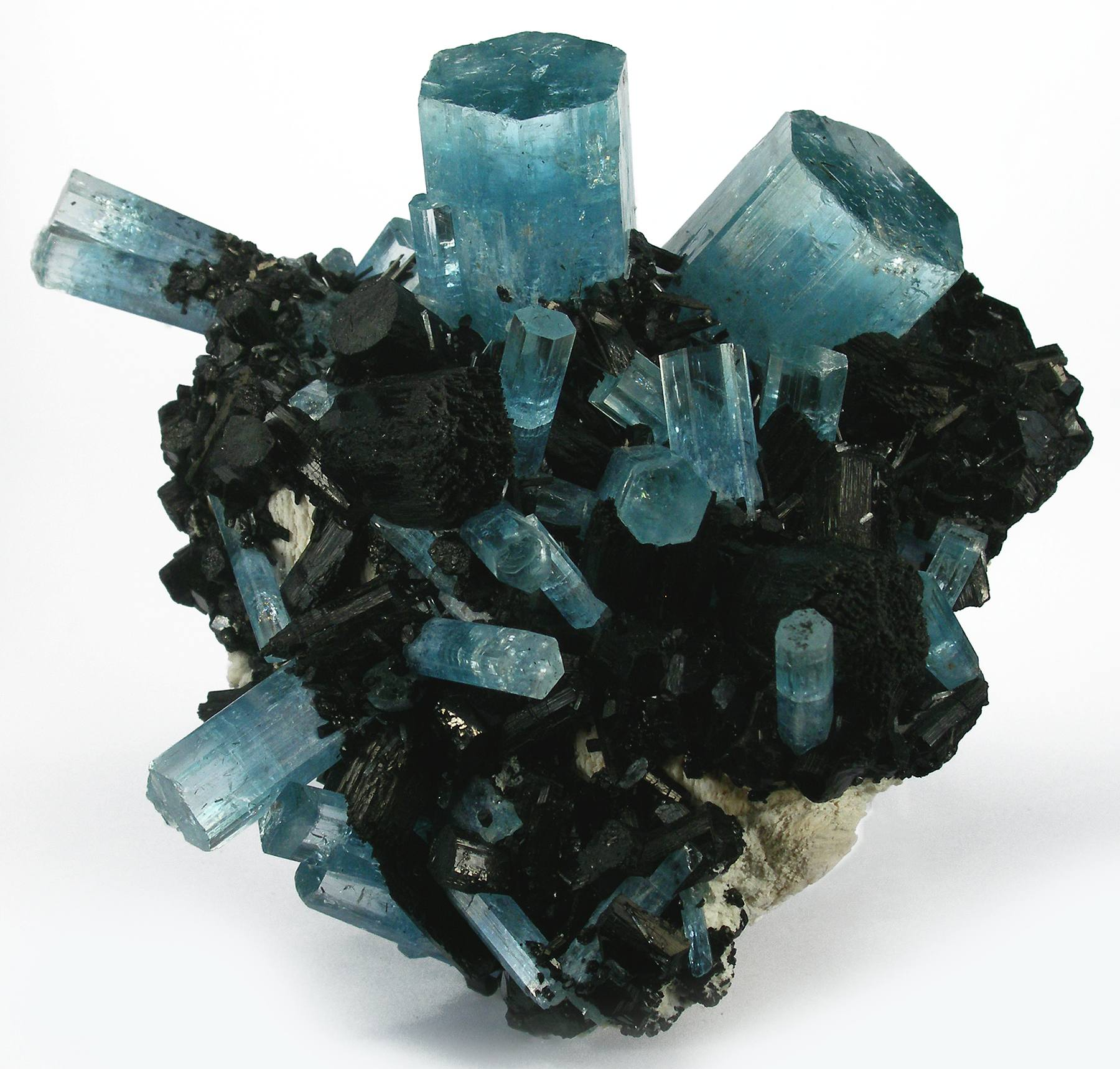 Beryl, Schorl Locality: Erongo Mountain, Usakos and Omaruru Districts, Erongo Region, Namibia (Locality at ) Size: cabinet, 13.1 x 11.1 x 9.8 cm Aquamarine with Schorl This piece screams with color and has amazing 3-dimensional arrangement of the aquamarines upon the contrasting schorls. The large aqua is DOUBLY-terminated and 9.5 x 2.9 x 2.7 cm in size. It graces the back or the front of this specimen depending on how you want to show it. From one side, you have a shocking cluster of fat, very gemmy, aquas hanging off the schorl backdrop, featuring this largest doubly-terminated crystal in the middle. A few small aquas are broken off to the periphery, but none of the majors and it is inconsequential in context. A very minor bit of edge wear, a few dings that are trivial in context, are present on the big aqua terminations, but this does not detract visually as they are shallow; and i only mention it for accuracy here. From the other display angle of view, you have what looks like a totally different, more elegant specimen, featuring several fat aquamarine tips poking up over hills of schorl (and with the forest of accenting aquas below, like trees on a slope). The piece looks incredible from either angle of display - and as I said, it looks really like two entirely different pieces depending on your choice of angle. Overall, this has some of the most robust, deep blue color I have seen before in an Erongo specimen, with a translucent and deeply colored body and a gemmy termination atop. The intense color, and large size, combined with lustre and a contrasting schorl association, all conspire to make this a special pocket considered by those who saw them recently at the Denver show to be among the best aqua finds here in about a decade of quite sporadic aquamarine mining. With its unique aesthetics and schorl contrast, this is a major display quality, cabinet aquamarine that is DIFFERENT then anything that ever came out of Brazil or Pakistan.